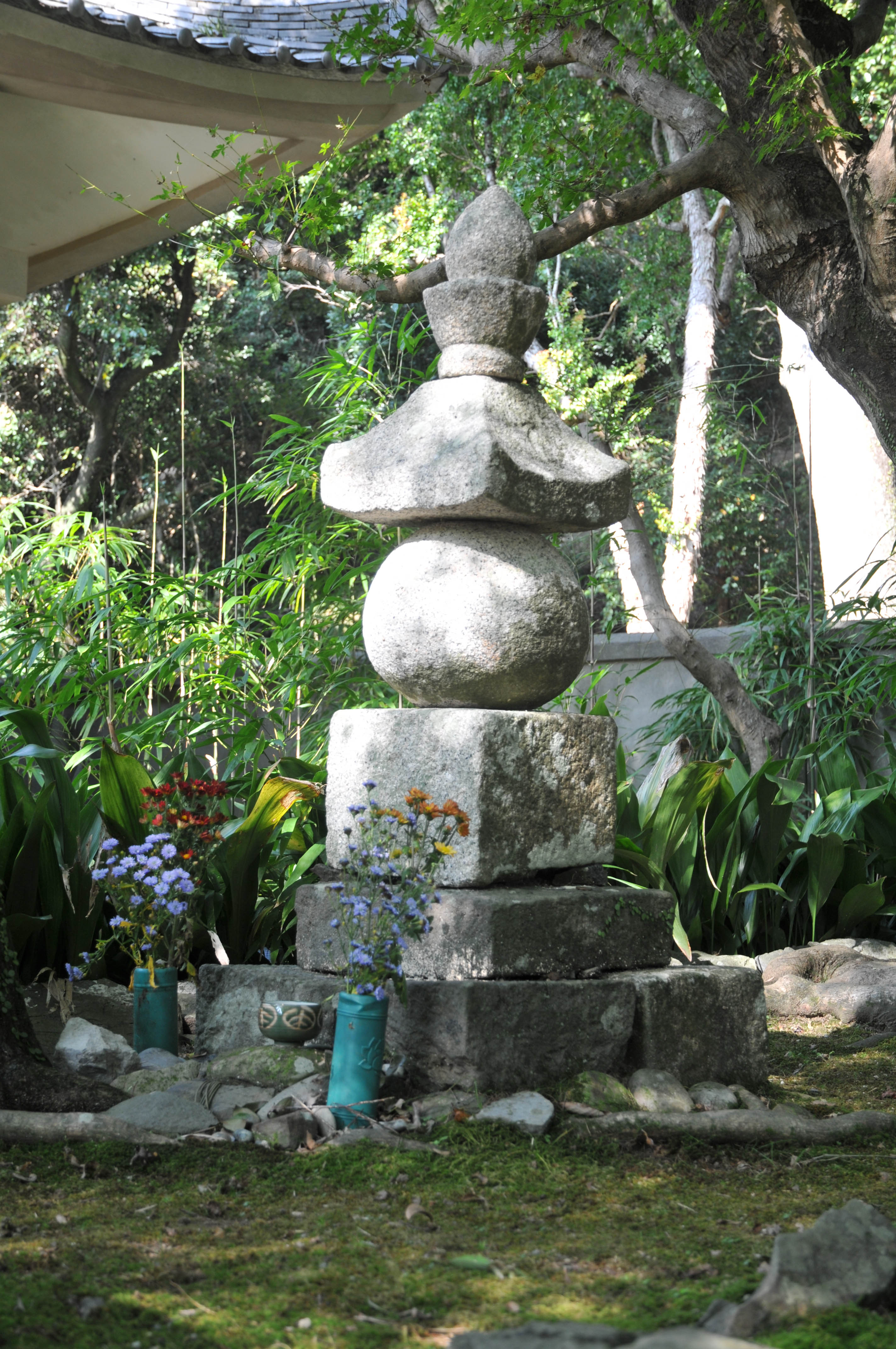 Chosakabe force killed in Hetsugigawa Battle dead Rest-in-peace Memorial, Sekkei-ji